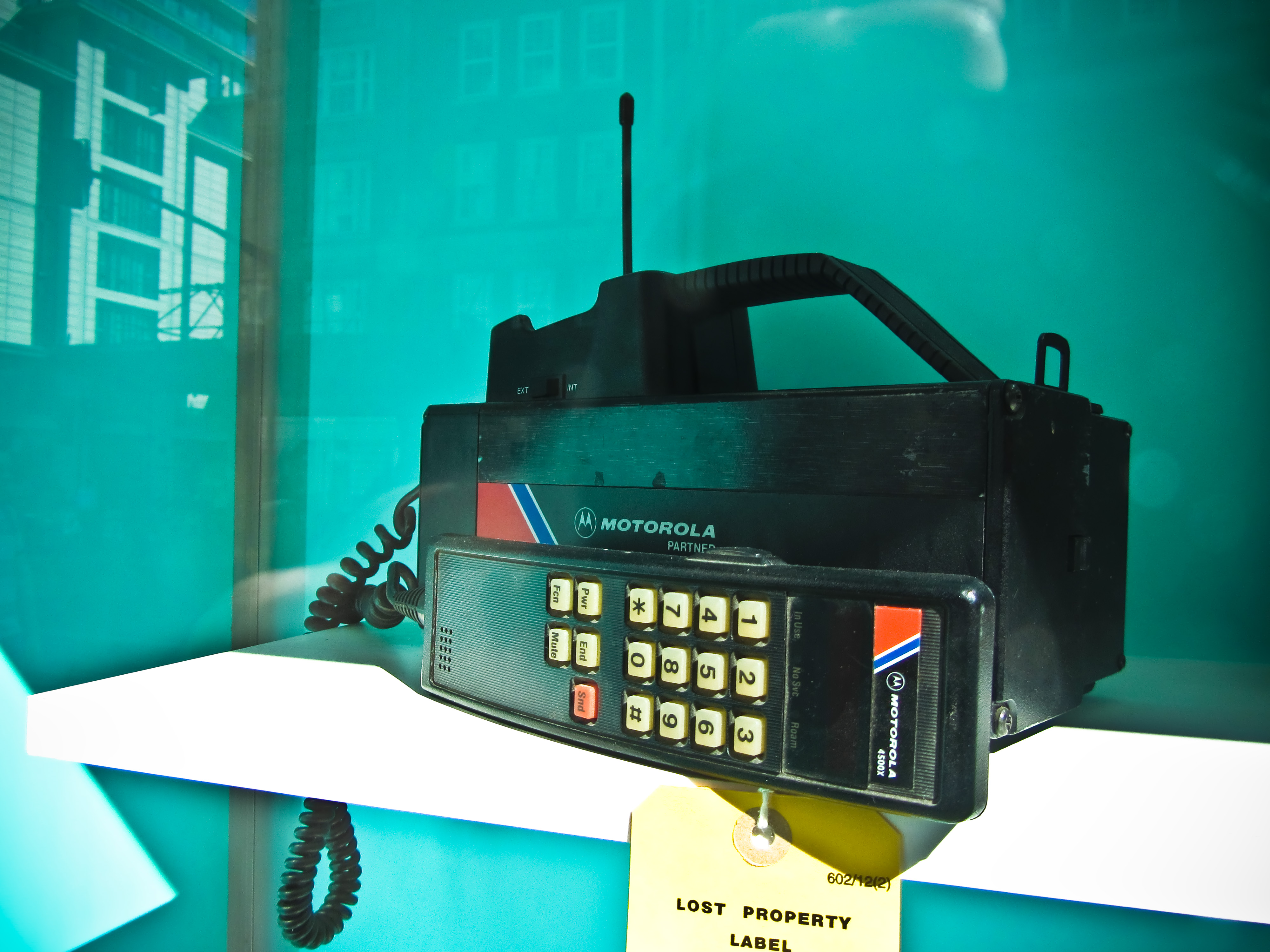 A Motorola 4500X mobile phone from the 1980s, in the LT Lost Property Office in Baker Street.